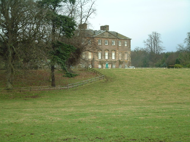 Durie House.